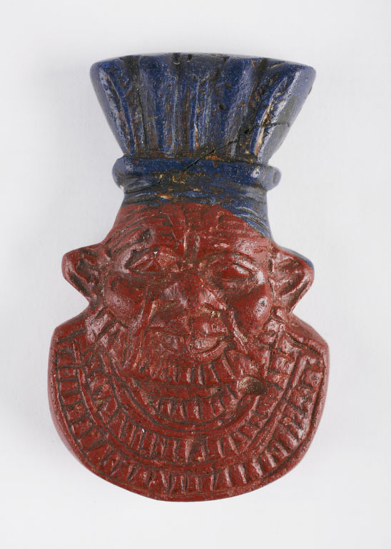 A Dwarf-God Bes amulet in the permanent collection of The Children’s Museum of Indianapolis.